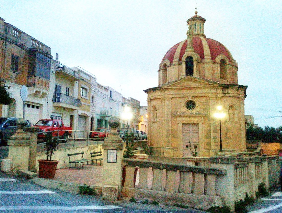 Bidnija Church in the evening